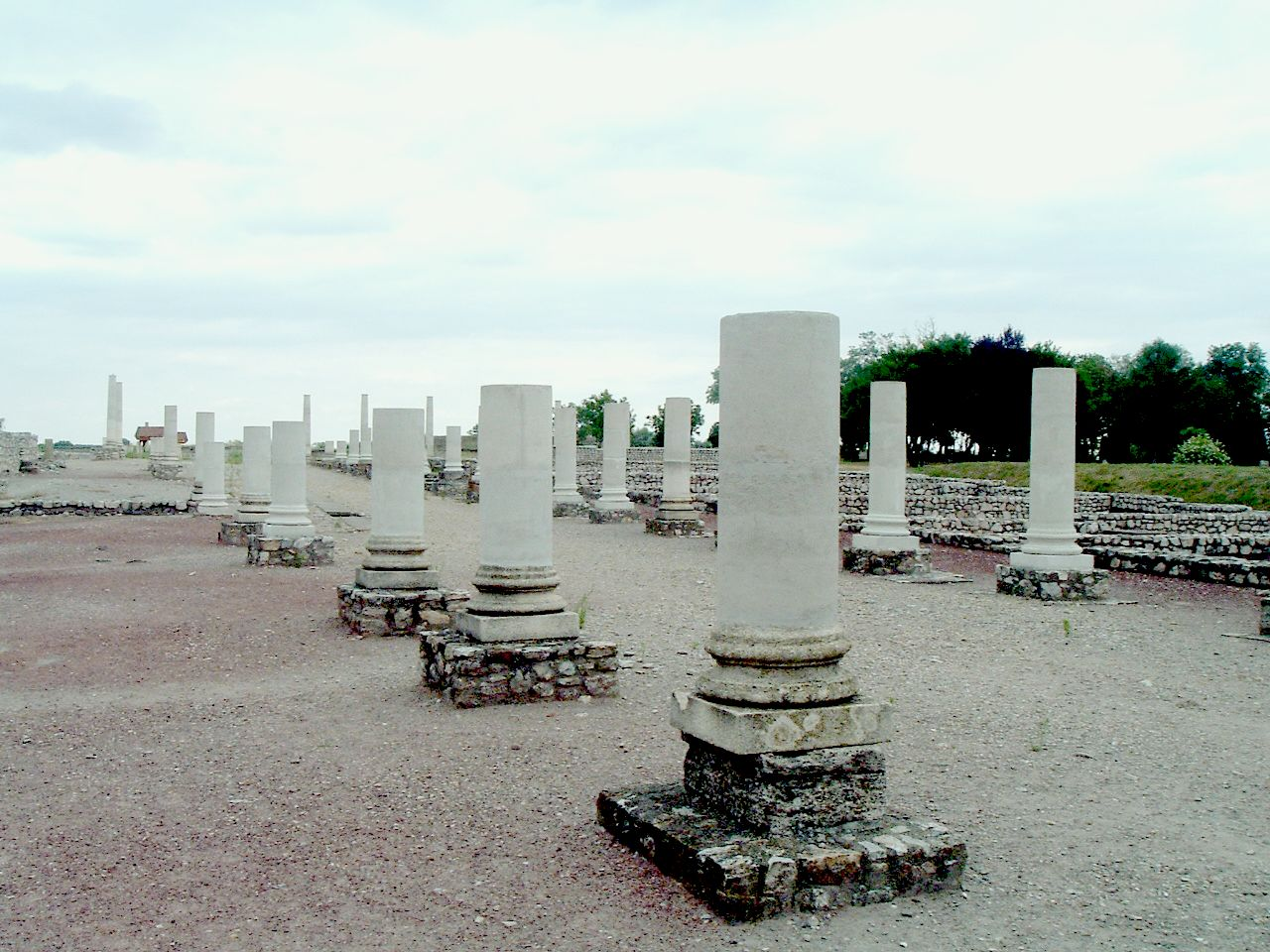 Ruin of the ancient roman town Gorsium in Tác